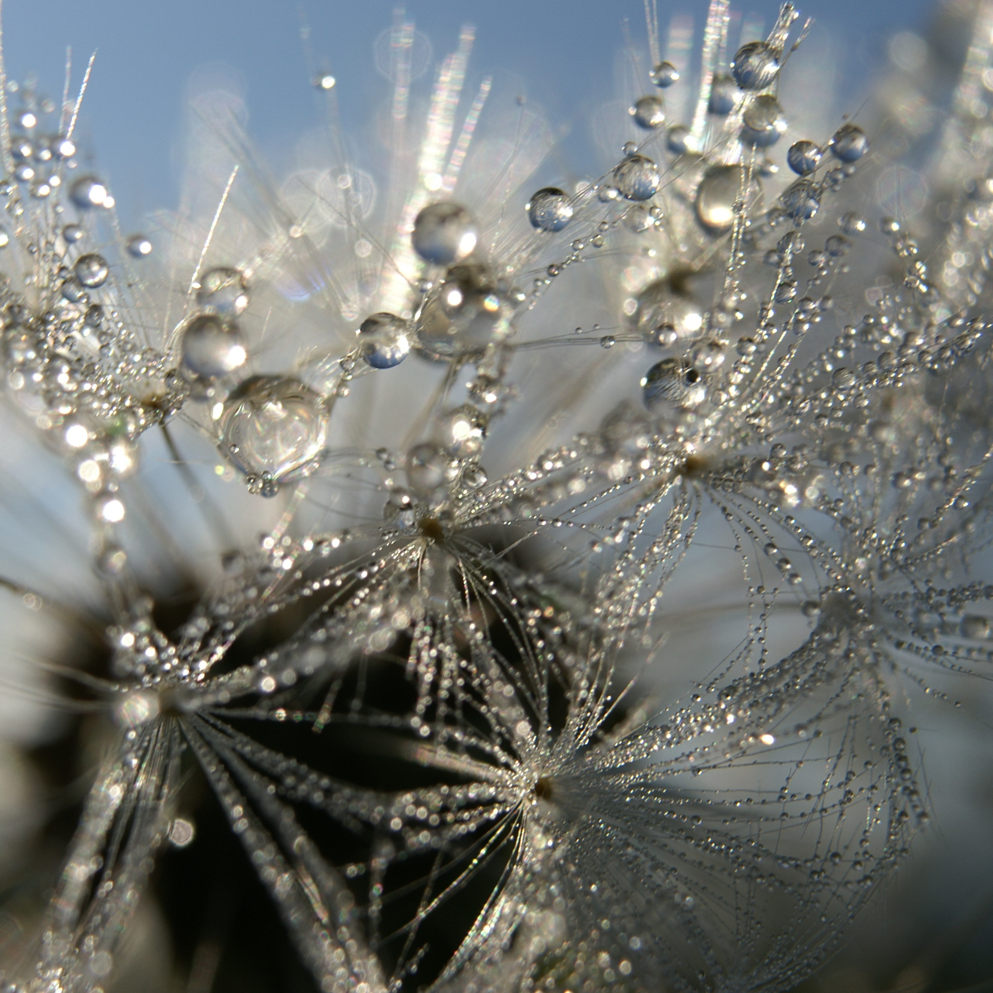 Macro shot of a Taraxacum sect. Ruderalia.